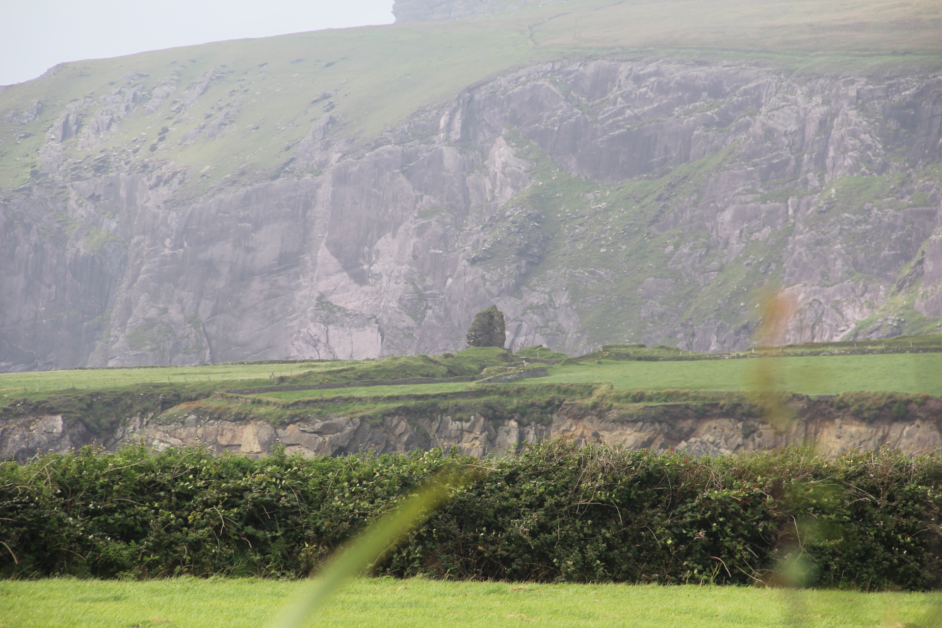 Ard na Caithne, Ciarraí